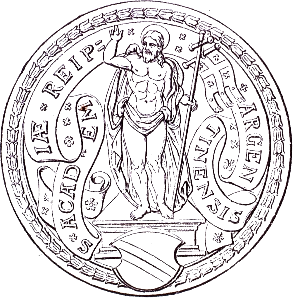 Seal of the Academy of Straßburg, the predecessor of the later university.